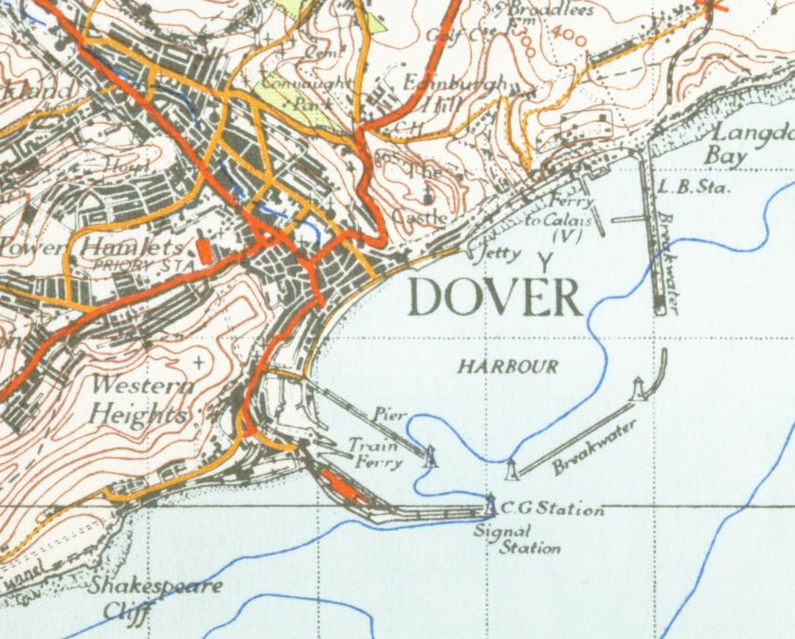 from the 1945 OS map of East Kent 1 inch to the mile